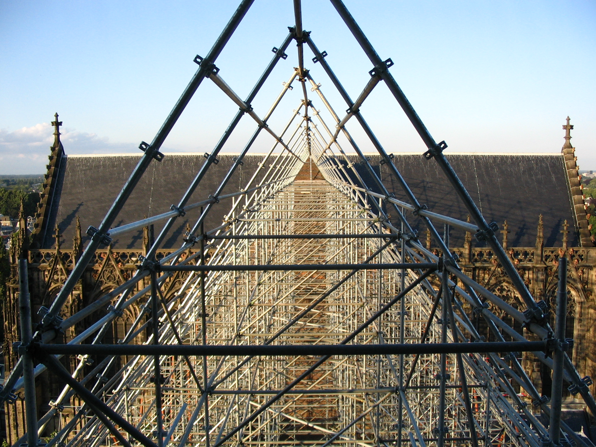 Symbolic reconstruction of the nave of the Domkerk in Utrecht with scaffold pipes. The nave was destroyed at 1674 August 1 due to a tornado. The builders had left out vital support for the walls of the nave, as the flying buttresses, to save money.